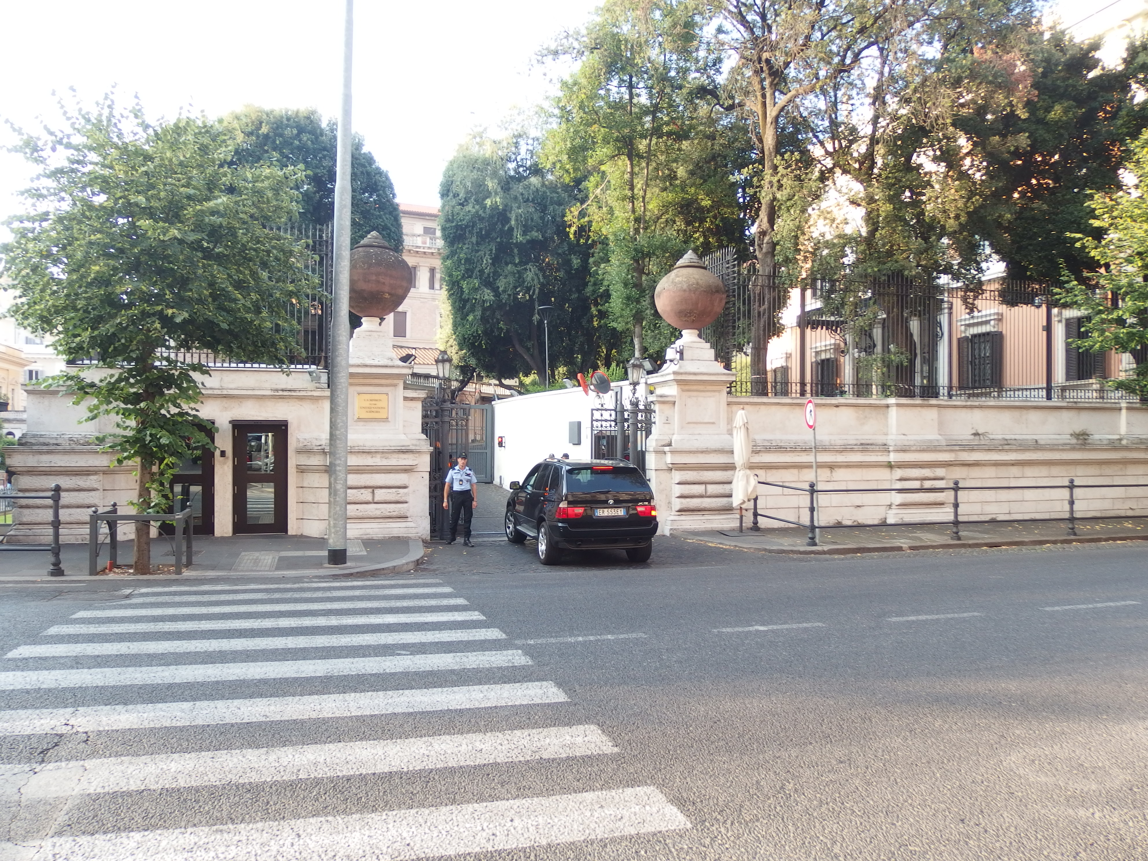 The entrance to the United States Mission to the UN Agencies in Rome, located in the same complex as the U.S. Embassy, on via Boncompagni in the governmental district.